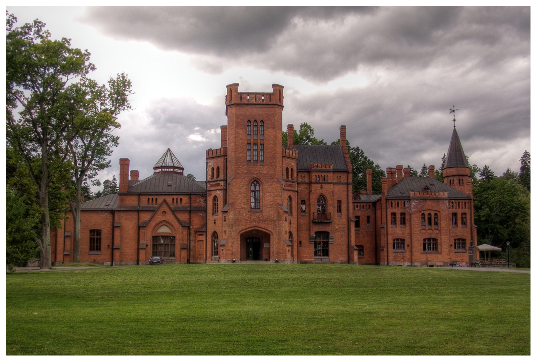 HDR EV: -1, 0, 1 Photomatix Pro 4